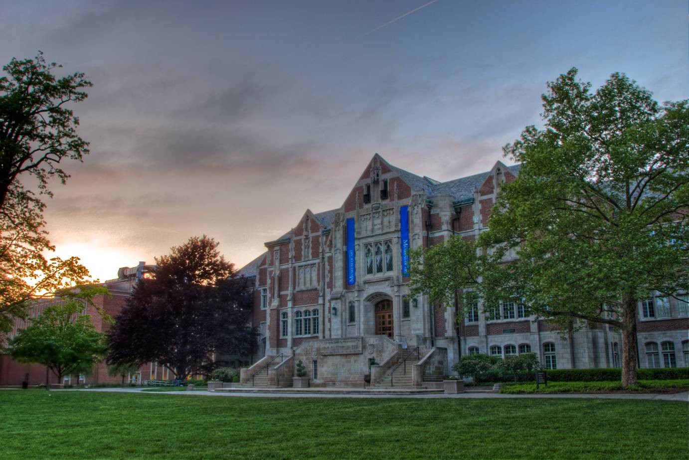 David Owsley Museum of Art at Ball State University Other information Matt gave us full permission to use his photo on wiki as well as our other social media sites, as you will find by Googling us. He and his family are even followers on our Facebook page, as you can find he and their names there at Proofs of our interaction are being emailed to . Thanks